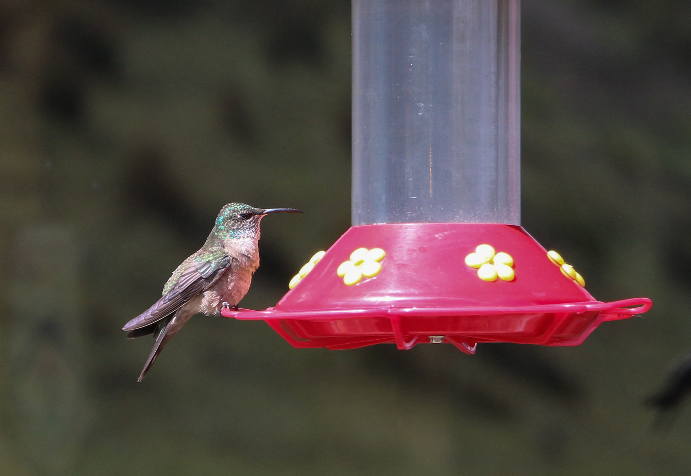 Ecuadorian hillstar (Oreotrochilus chimborazo) in Cotopaxi National Park, Ecuador